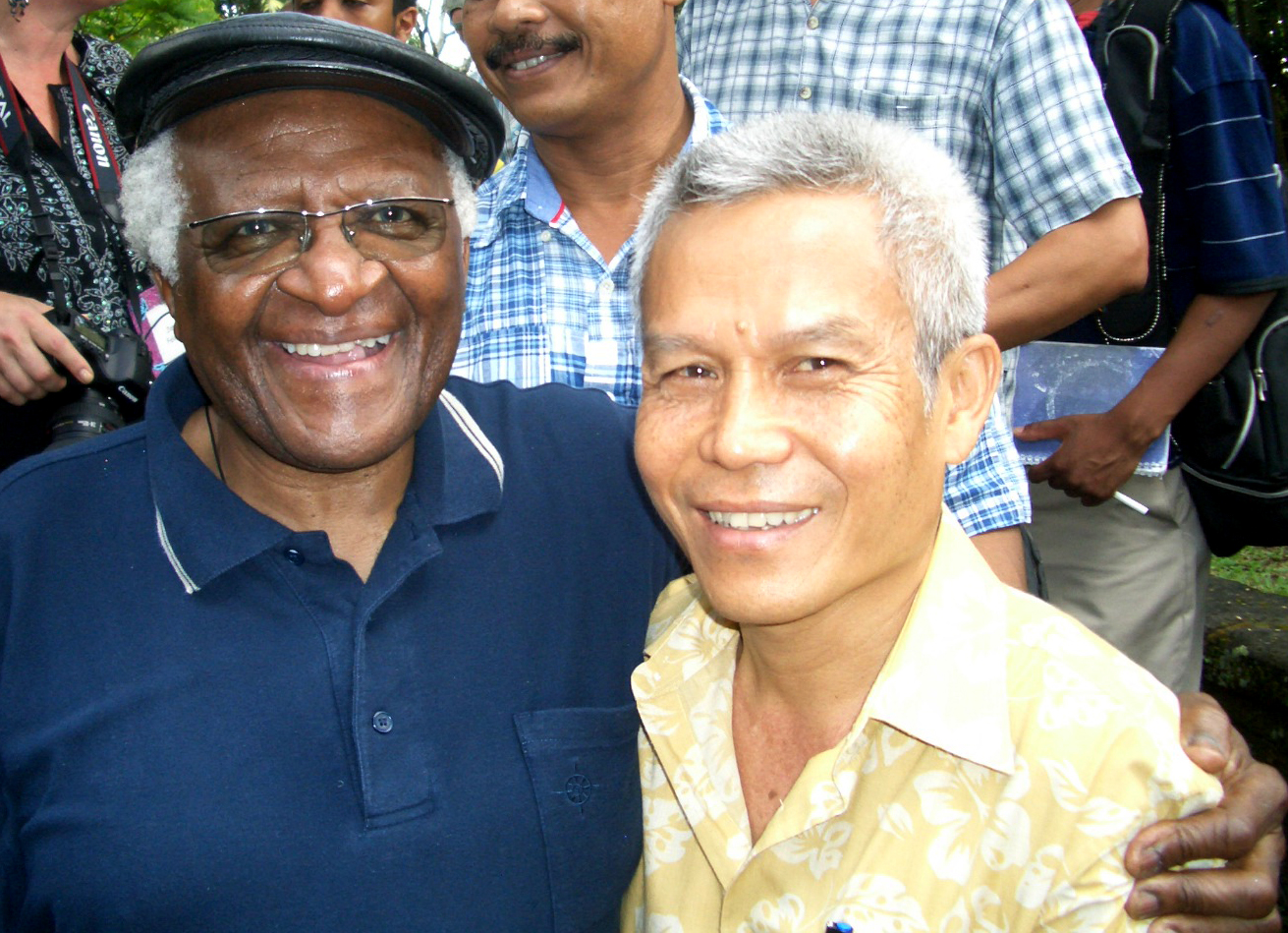 Sombath Somphone, an internationally respected community development worker from Laos, was abducted in Vientiane on 15 Dec 2012, prompting concern from around the world. He is seen in this 2006 with Desmond Tutu, winner of the Nobel Peace Prize.